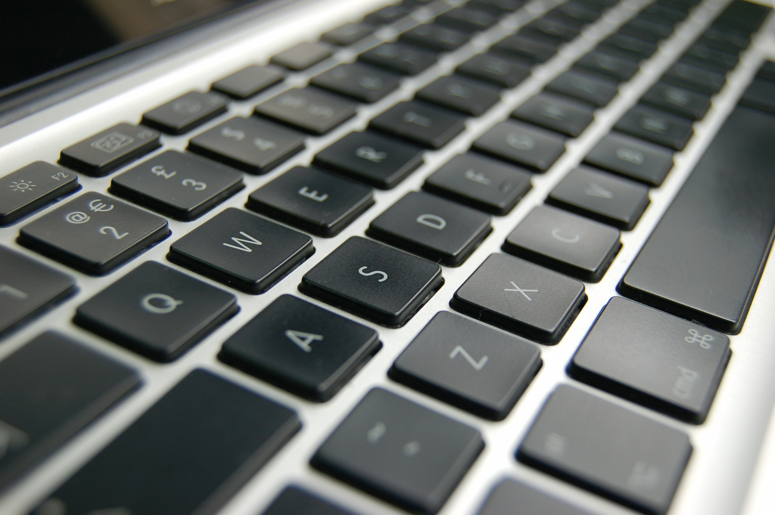 MacBook Keyboard shallow focus closeup